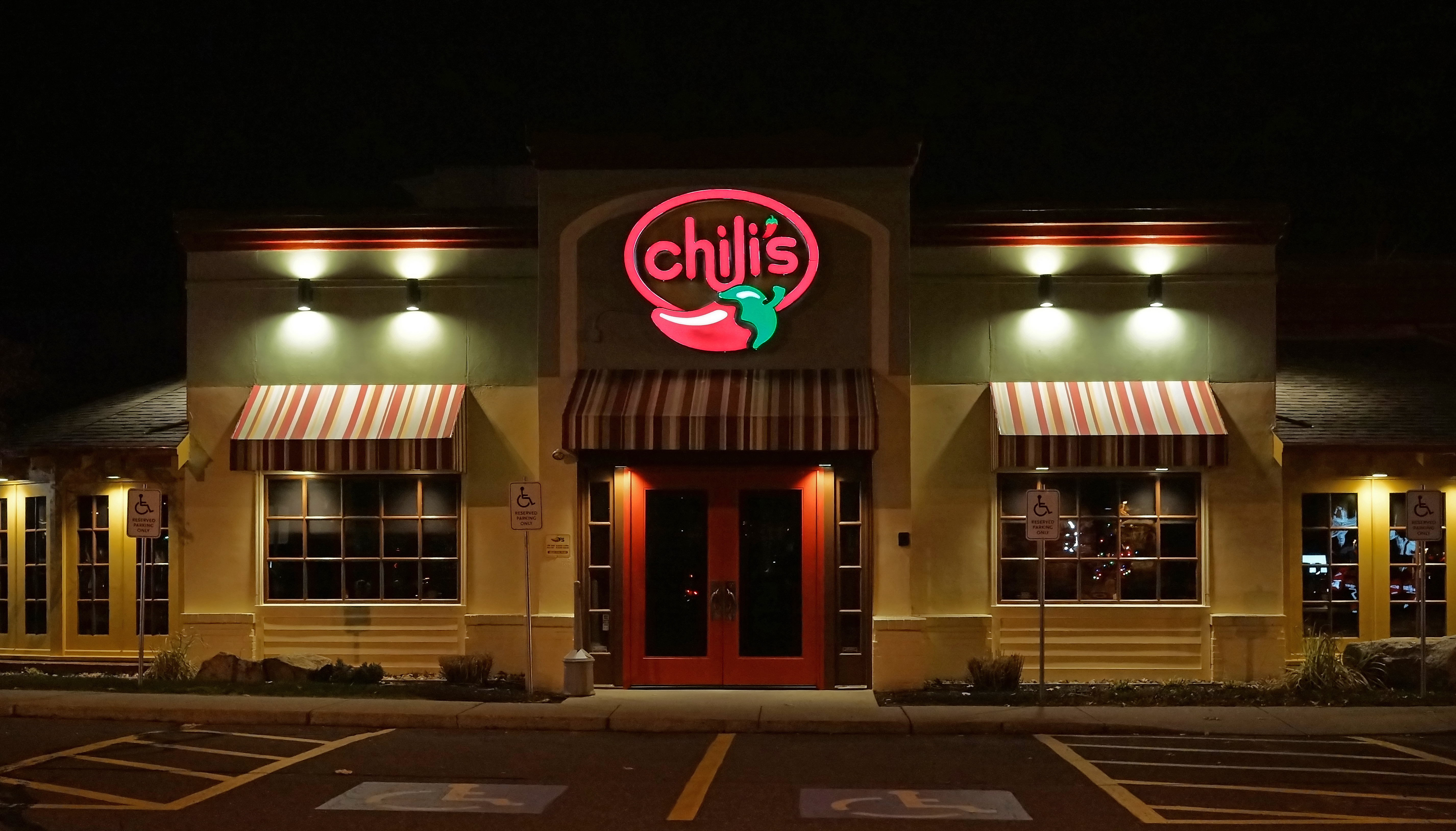 Chilis Restaurant Rt.1, Danvers, Massachusetts